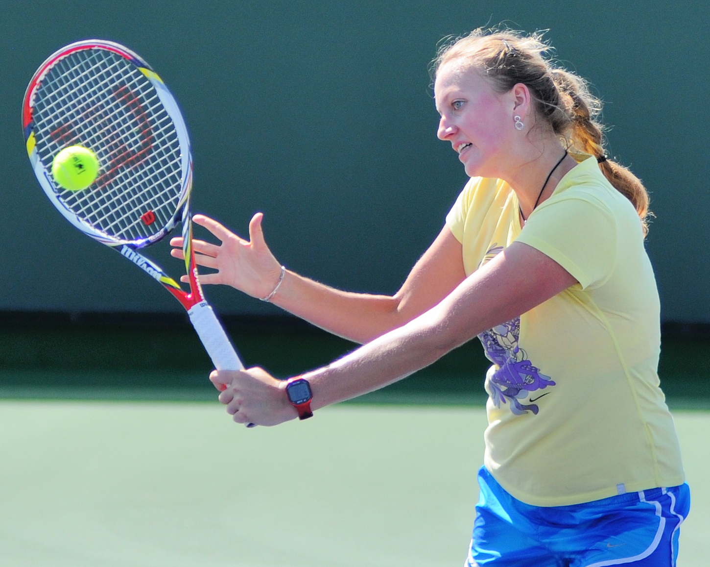 praticing at the BNP Paribas Open 2012